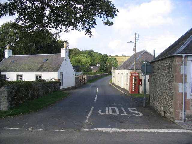 Appletreehall from the B6359 road